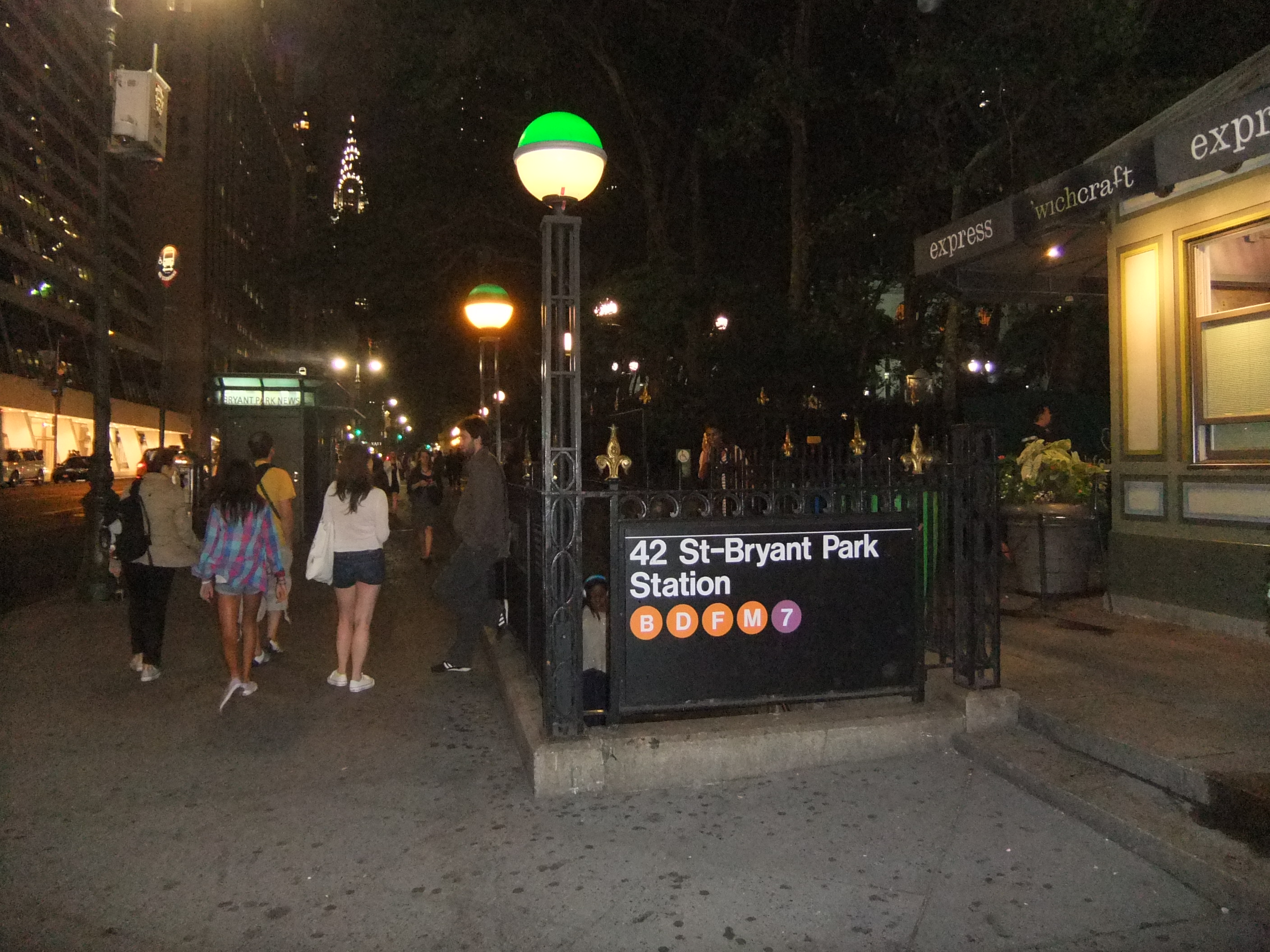 Entrance at 42nd Street and 6th Avenue to 42nd Street - Bryant Pk station at night.